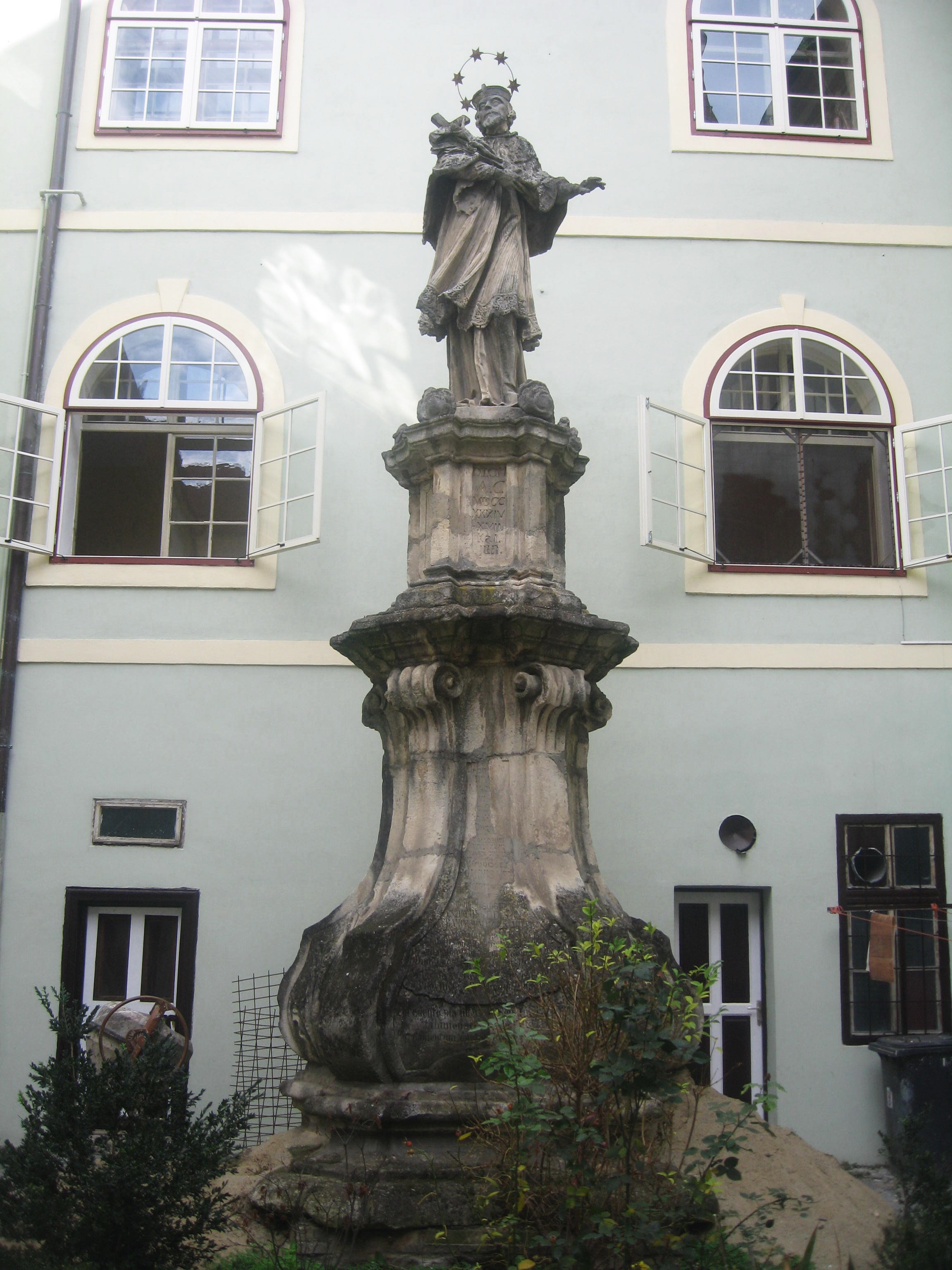 Statue of John of Nepomuk (1734) in Sibiu